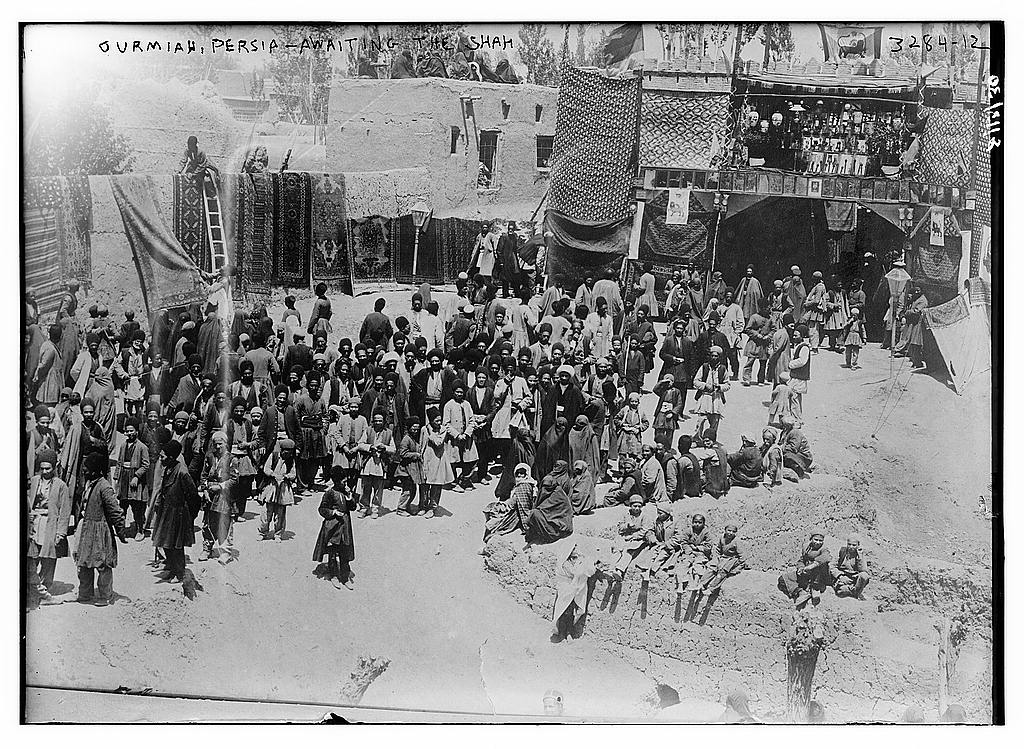 Ourmiah, Persia - Awaiting the Shah, 1911